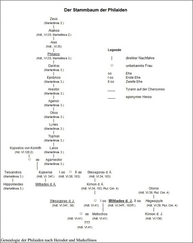 Genealogy of the Philaids